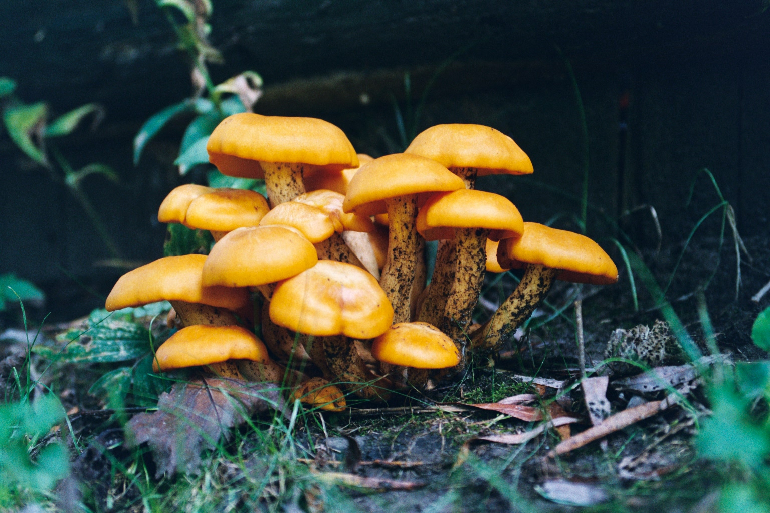 Omphalotus olearius growing in back yard Dyer, Indiana